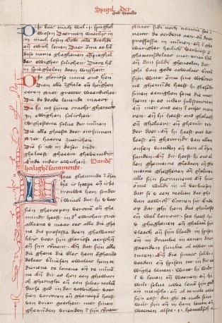 Excerpt from "Spieghel der eeuwigher salicheit" of the manuscript "Werken". Composed in Bergen-op-Zoom in 1480.